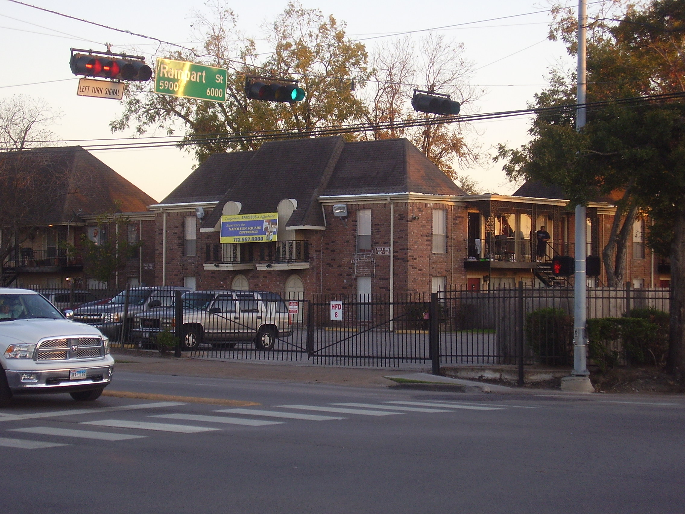 Napoleon Square Apartments - 6001 Gulfton Dr, Houston, Texas 77081